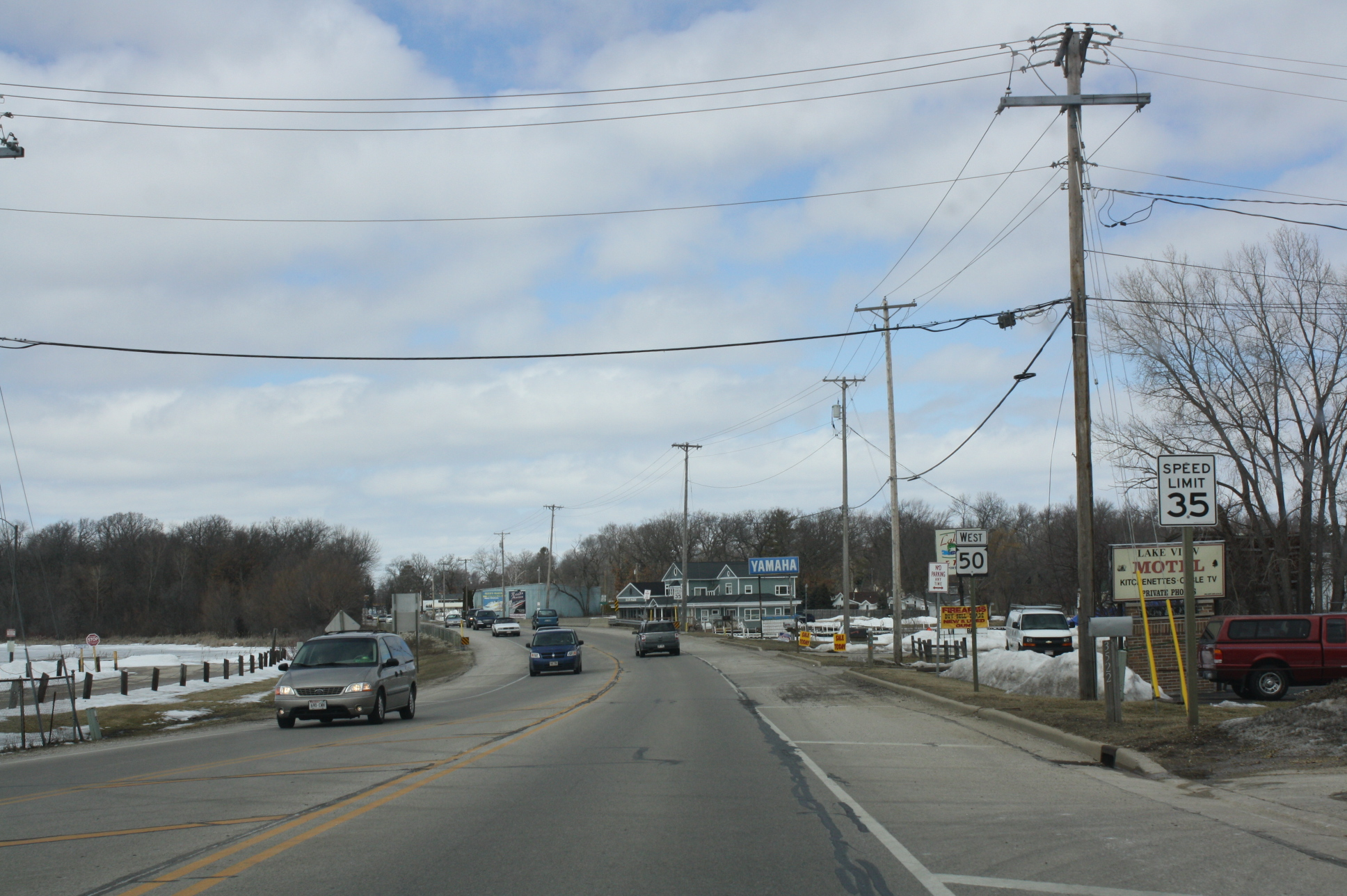 Delavan Lake, Wisconsin (the census designated place) from Wisconsin Highway 50.